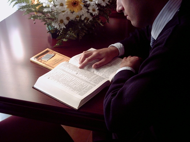 Personal bible study